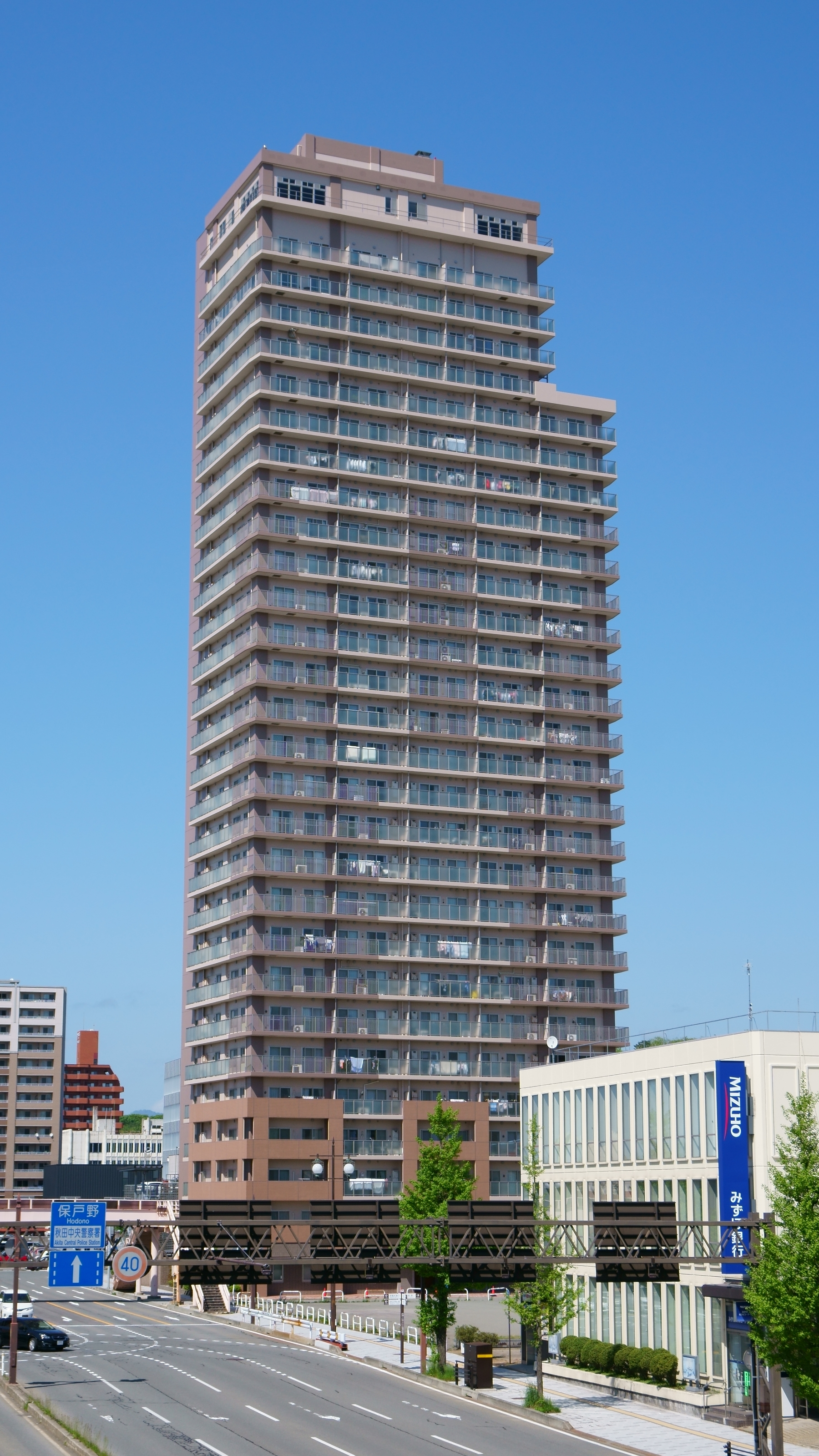 Belle Demeure Landmark AKITA, the tallest building in Akita prefecture, Japan